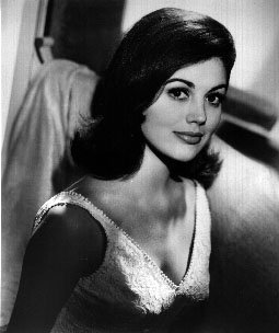 Linda Harrison - early studio publicity headshot ca. 1966